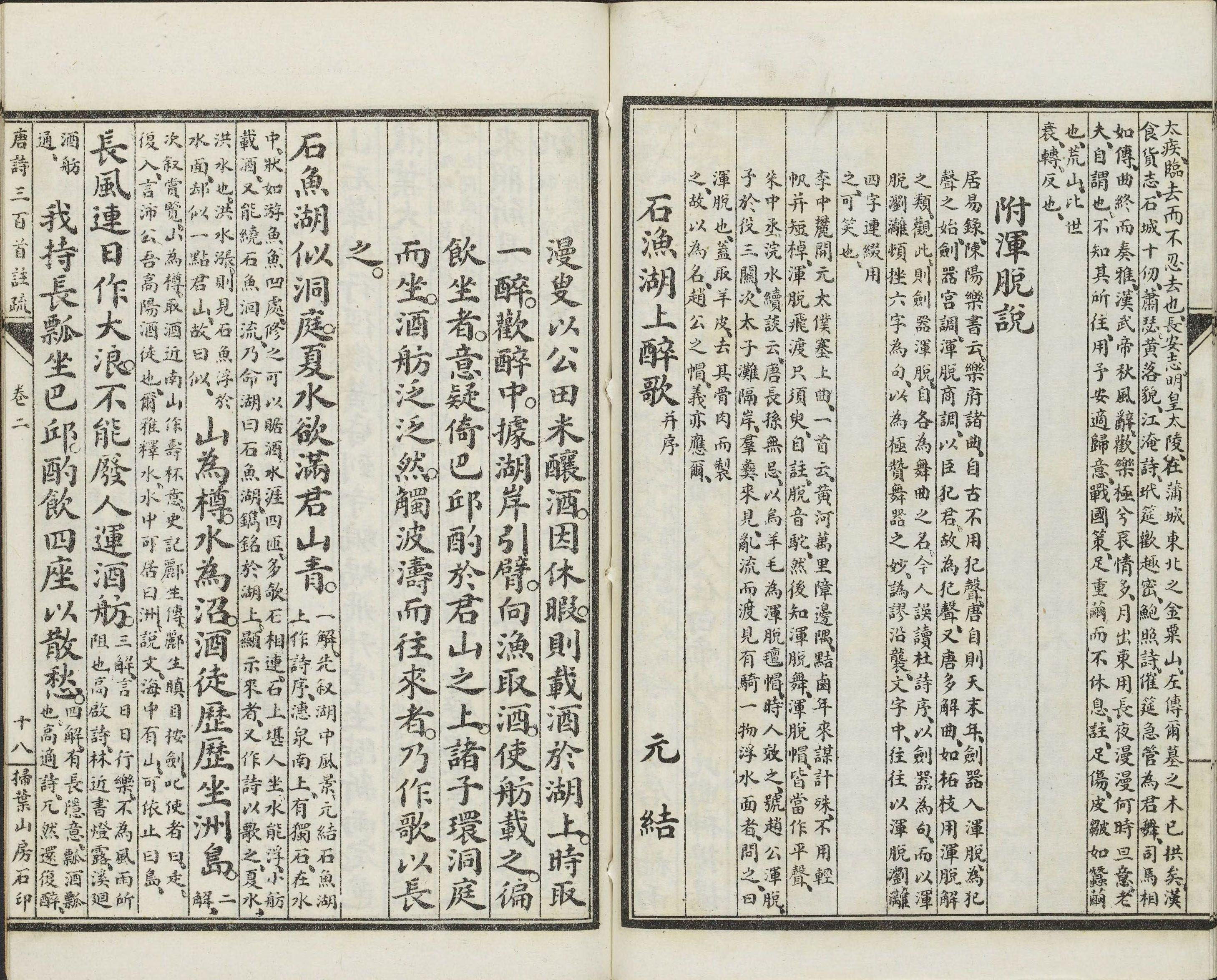 Three Hundred Tang Poems